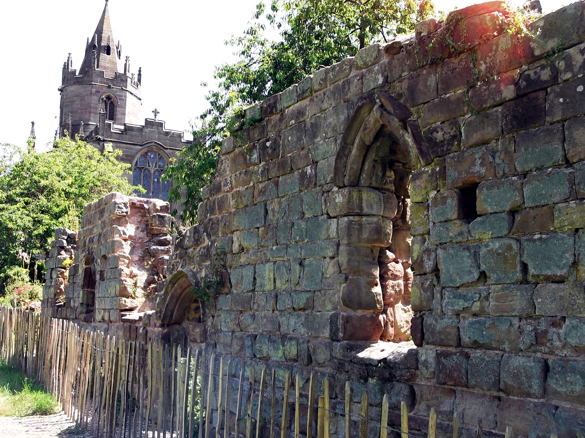 Remains of former college buildings. St Bartholomew's Church, Tong, Shropshire.